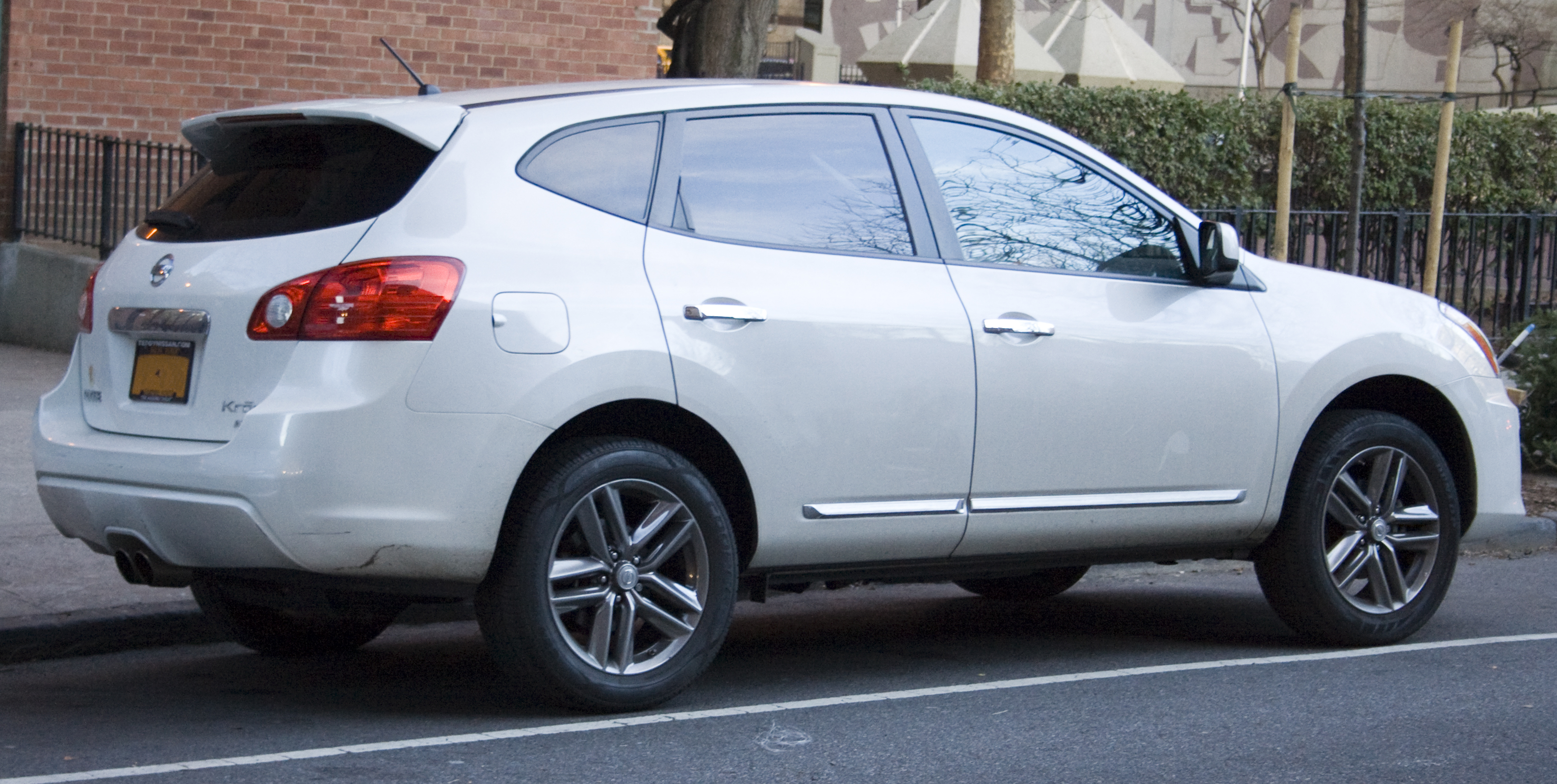 Stupidly named 2011 Nissan Rogue Krõm edition